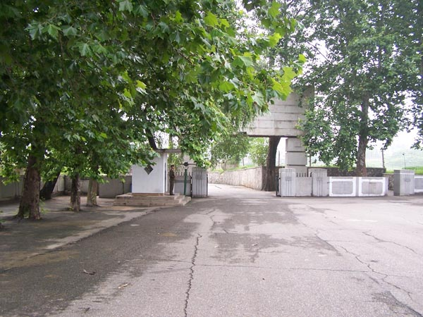 Main gate from North Korea into the Korean Demilitarized Zone (DMZ), northwest of Panmunjon.